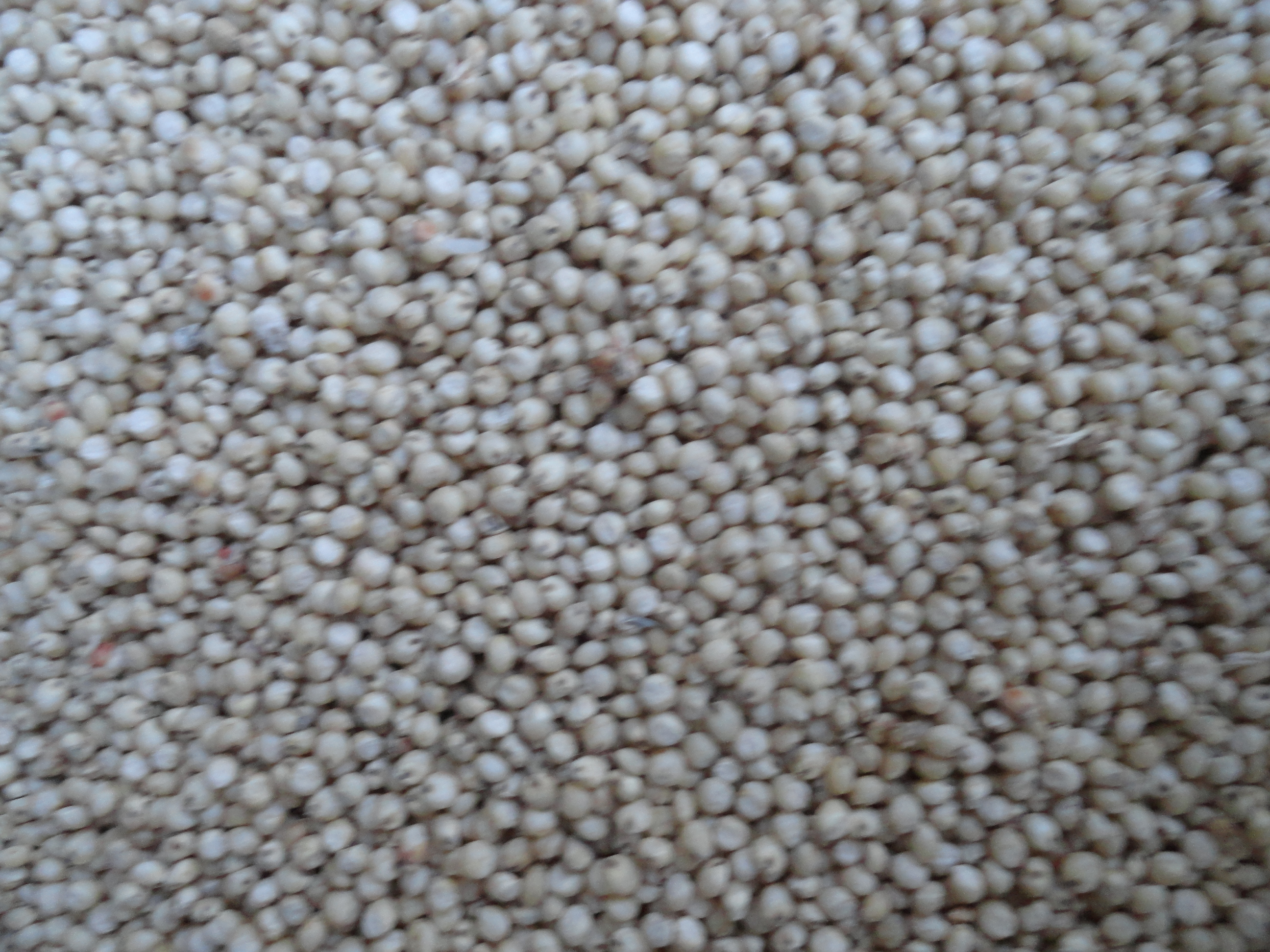 జొన్నలు